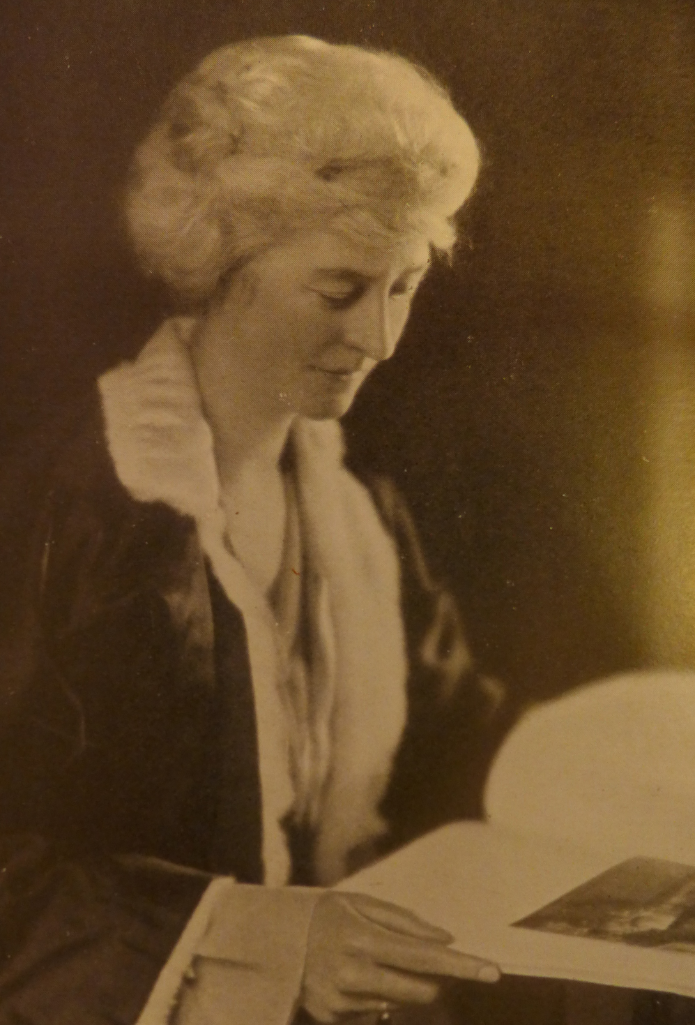 Picture of Anne Douglas Sedgwick